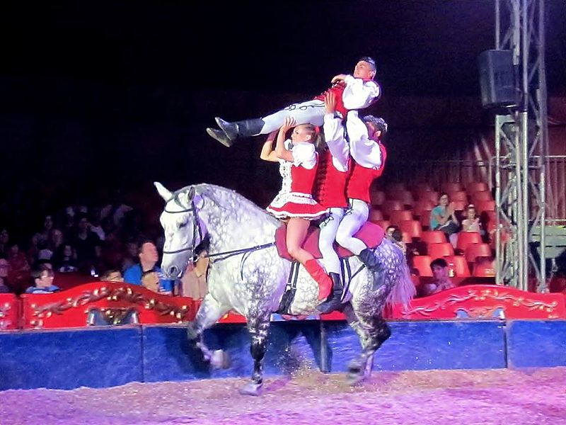 Richter Troupe perform at the Hungarian National Circus.